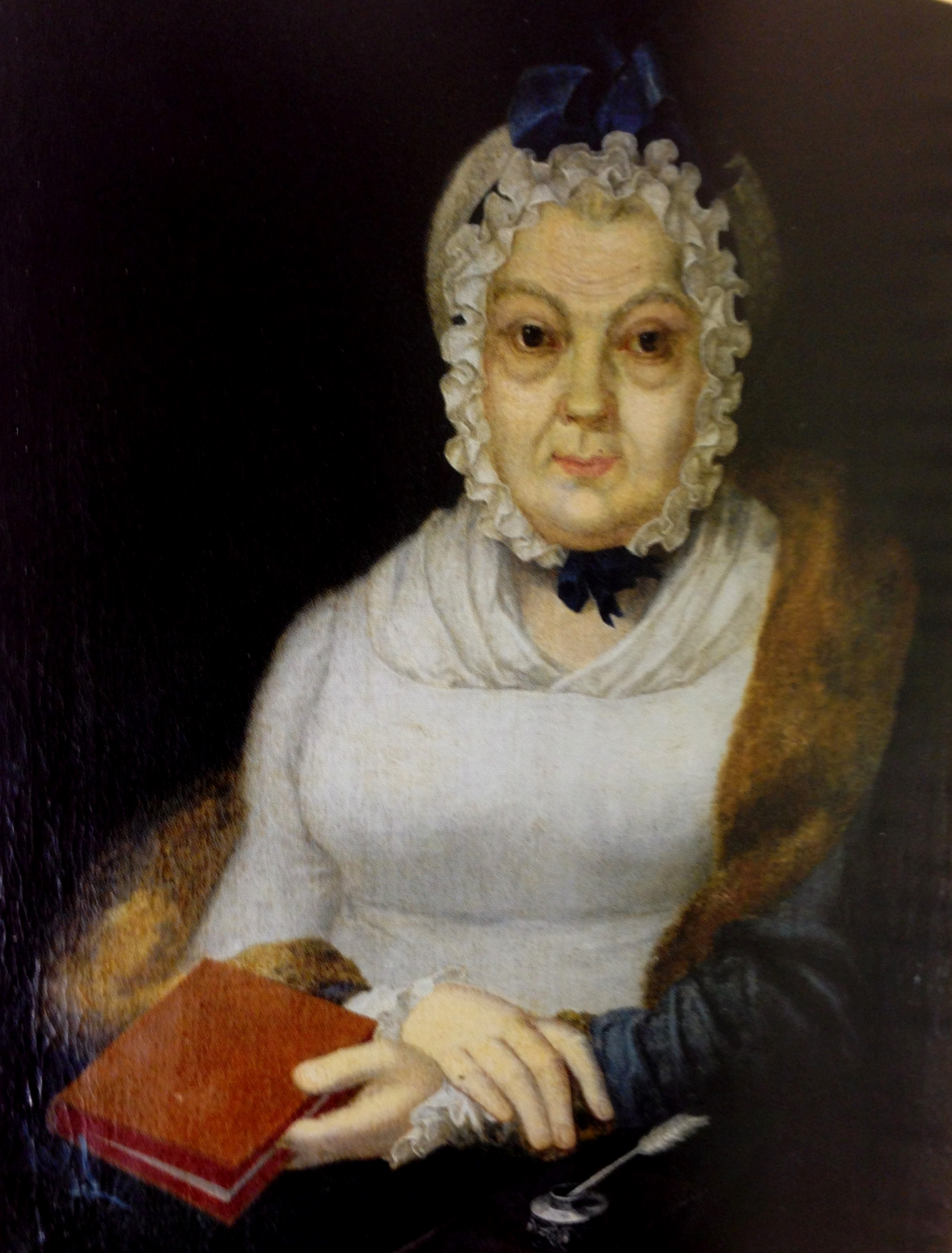 from the book: Marques da Alorna by lopo de carvalho